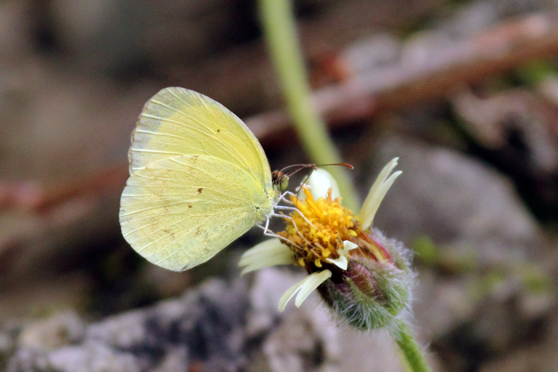 Mimosa yellow butterfly (Pyrisitia nise nise) male in Jamaica